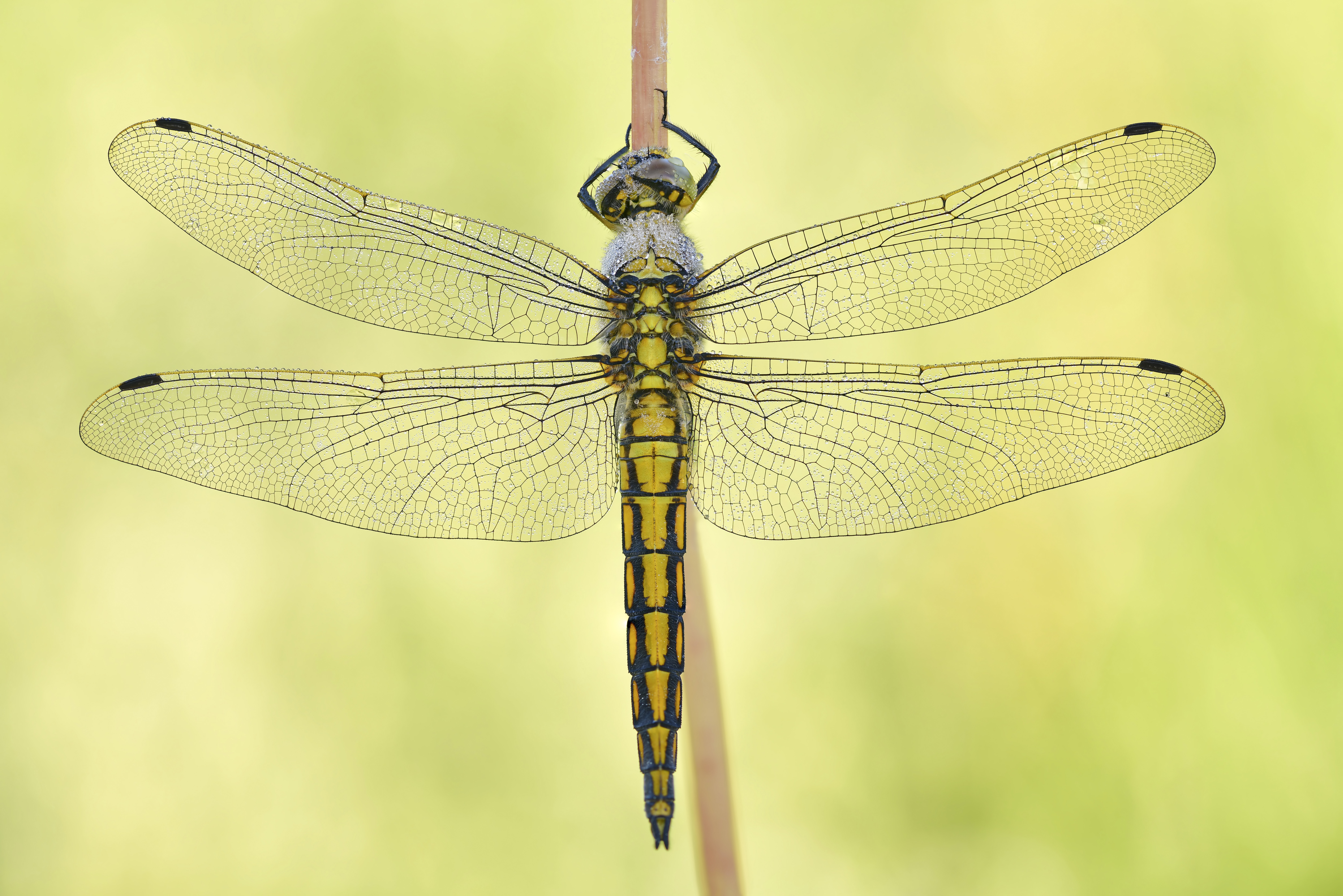 Juvenile male black-tailed skimmer (Orthetrum cancellatum). Naturschutzgebiet Wittenberge-Rühstädter Elbniederung, Germany.